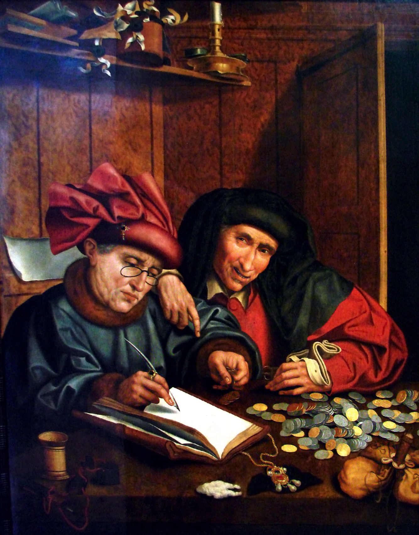 This version is one of a large number of paintings with the same depiction of the subject, NONE of them is an authentic Marinus van Reymerswale. They are often characterised by a parrot or scissors behind the writing man and jewelry on the table. They often bear dates which are later than the probable year of Marinus' death (1546), or they carry French inscriptions or these inscriptions deal with subjects which Marinus never used on one of his original versions of Ywo Tax Collectors, the title which has been most commonly used for these paintings (cf. the versions in the Louvre Museum and in the National Gallery of London). The present version may have found its origin in the authentic painting which is in the Narodny Muzeum in Warsaw.